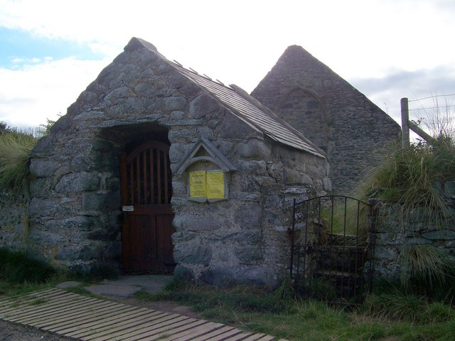 St Tanwg's Church, Llandanwg The church is dedicated to St Tanwg, a Breton saint who accompanied Cadfan to Bardsey.